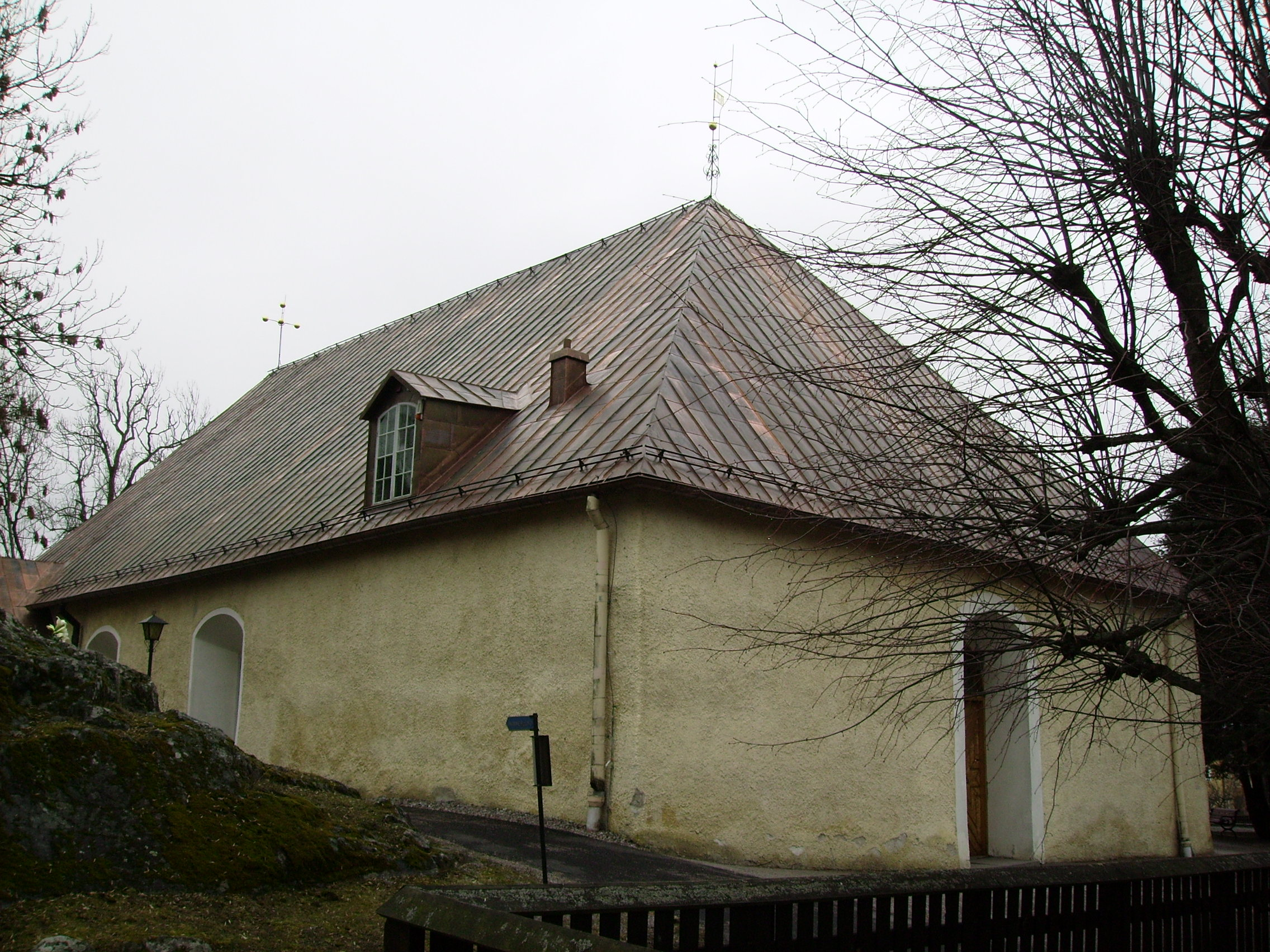 Picture of Trosa town church, march 2009.